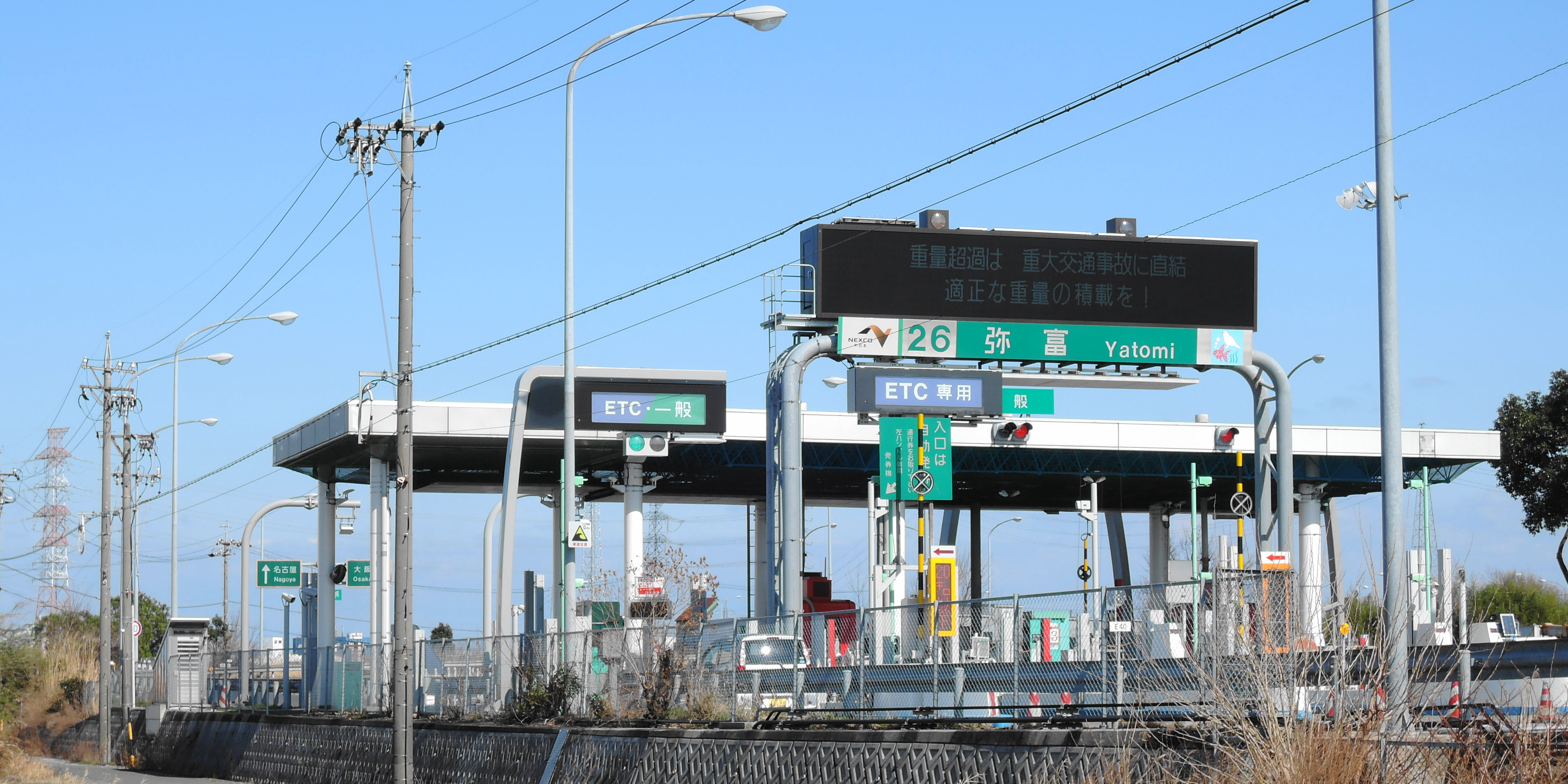 Yatomi Inter Change,Aichi prefecture,Japan